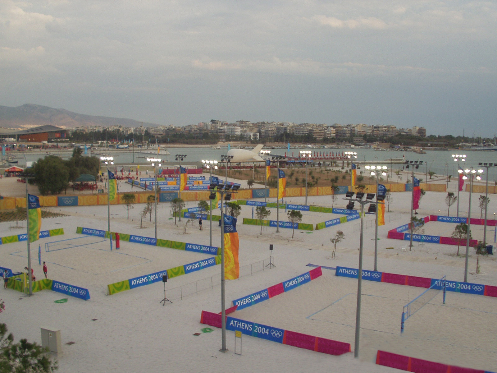 Volleyball at the 2004 Summer Olympics